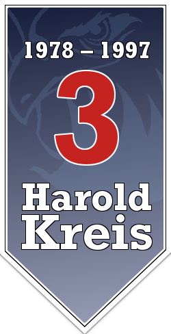 Banner in honour of Harold Kreis (No 2 of the Adler Mannheim) at the SAP-Arena, uses the GFDL picture Image:Mannheim-Adler-Logo.jpg